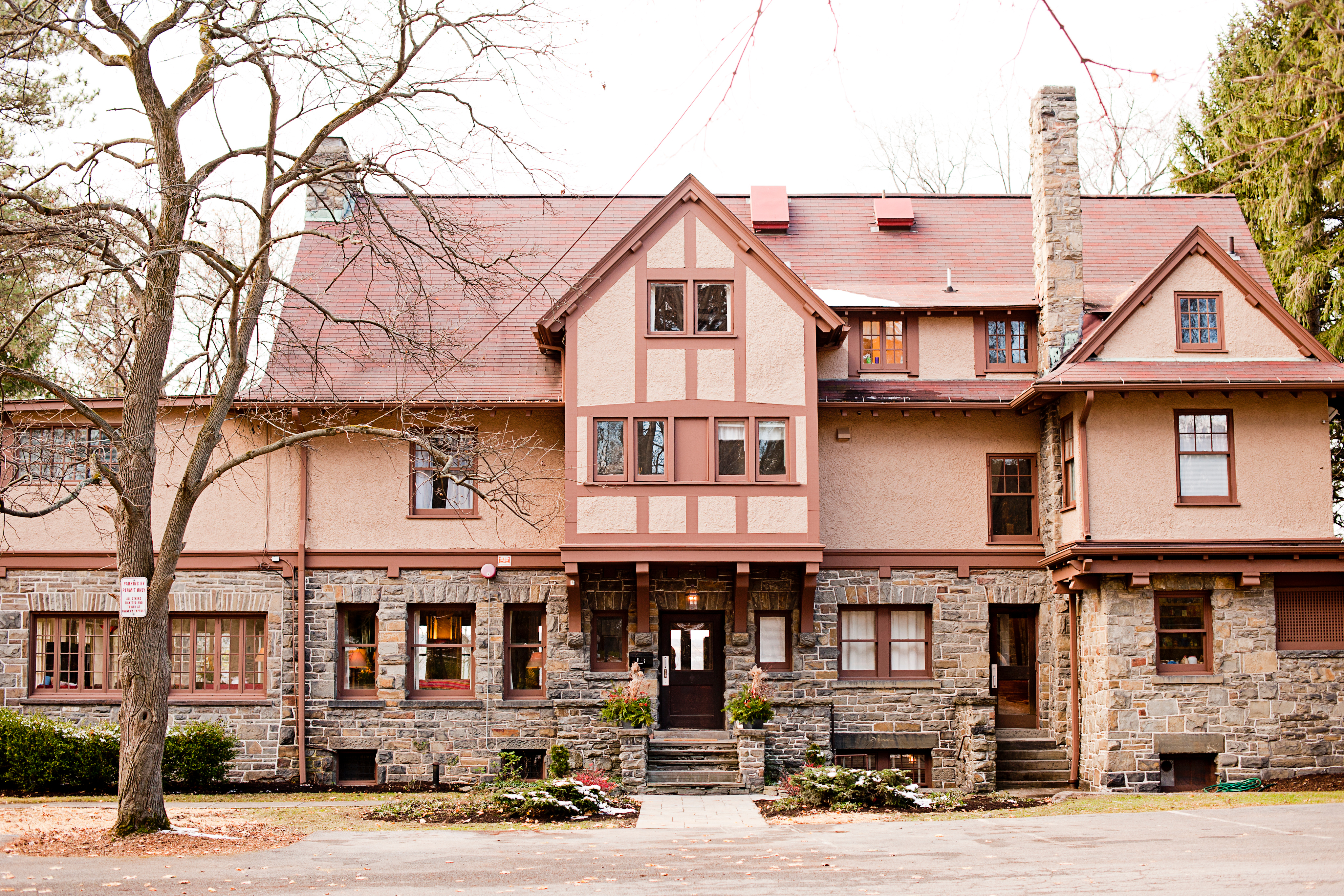 Courtesy of Carrie Alley Photography